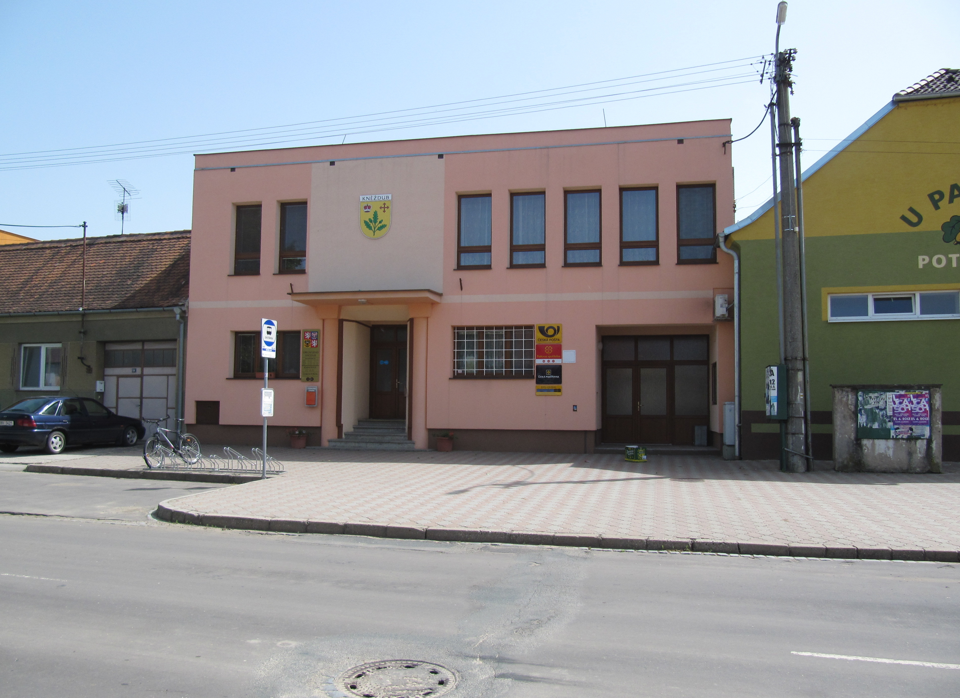 Kněždub, Hodonín District, Czechia.